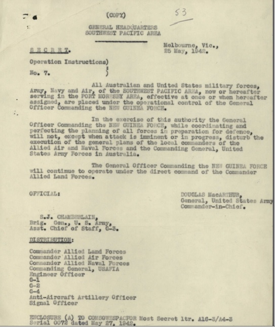 Operational Instruction detailing command structure of New Guinea Force, WWII